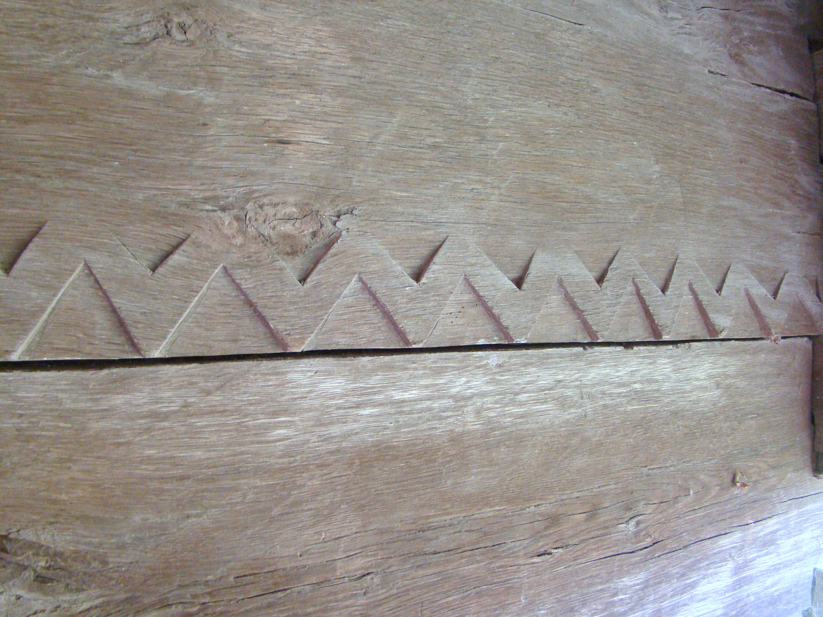 Wooden church in Sura, Gorj county, Romania